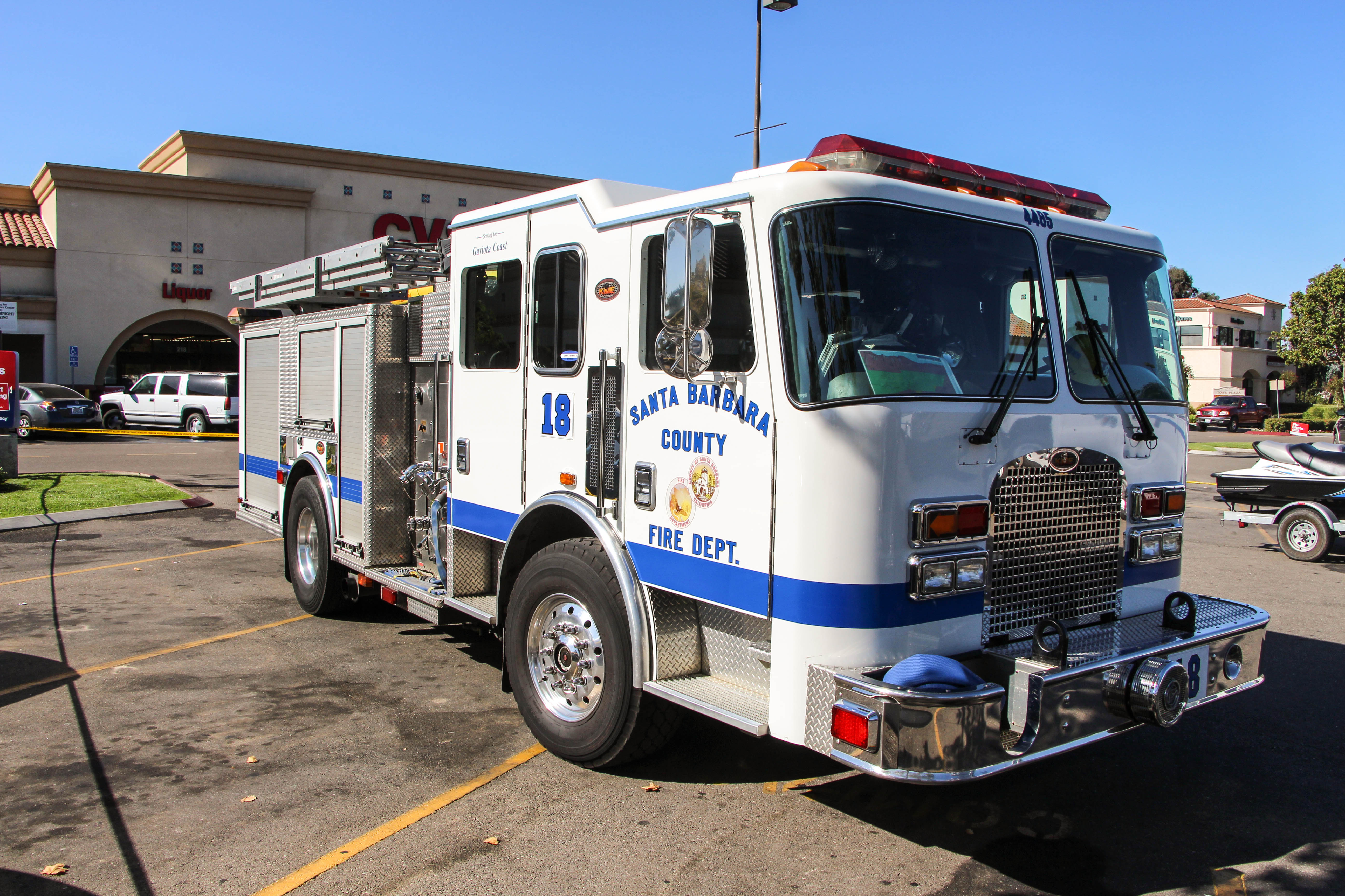 Engine 18 of the Santa Barbara County Fire Department